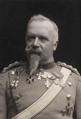 Victor Dornonville de la Cour (1843-1926), Danish army officer